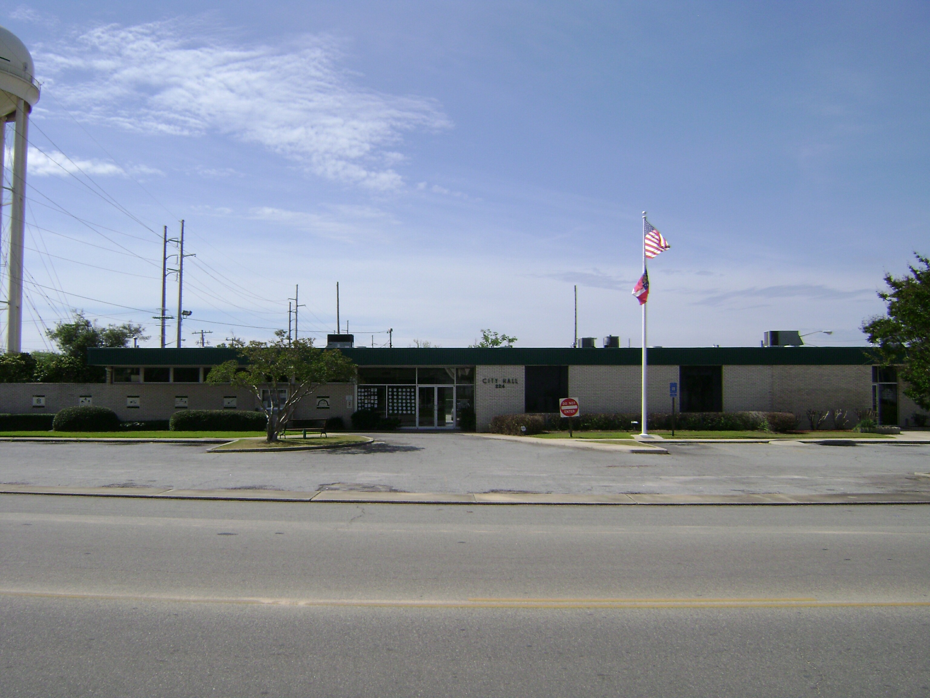 Douglas City Hall at 224 E. Bryan St., Douglas, Coffee County, Georgia